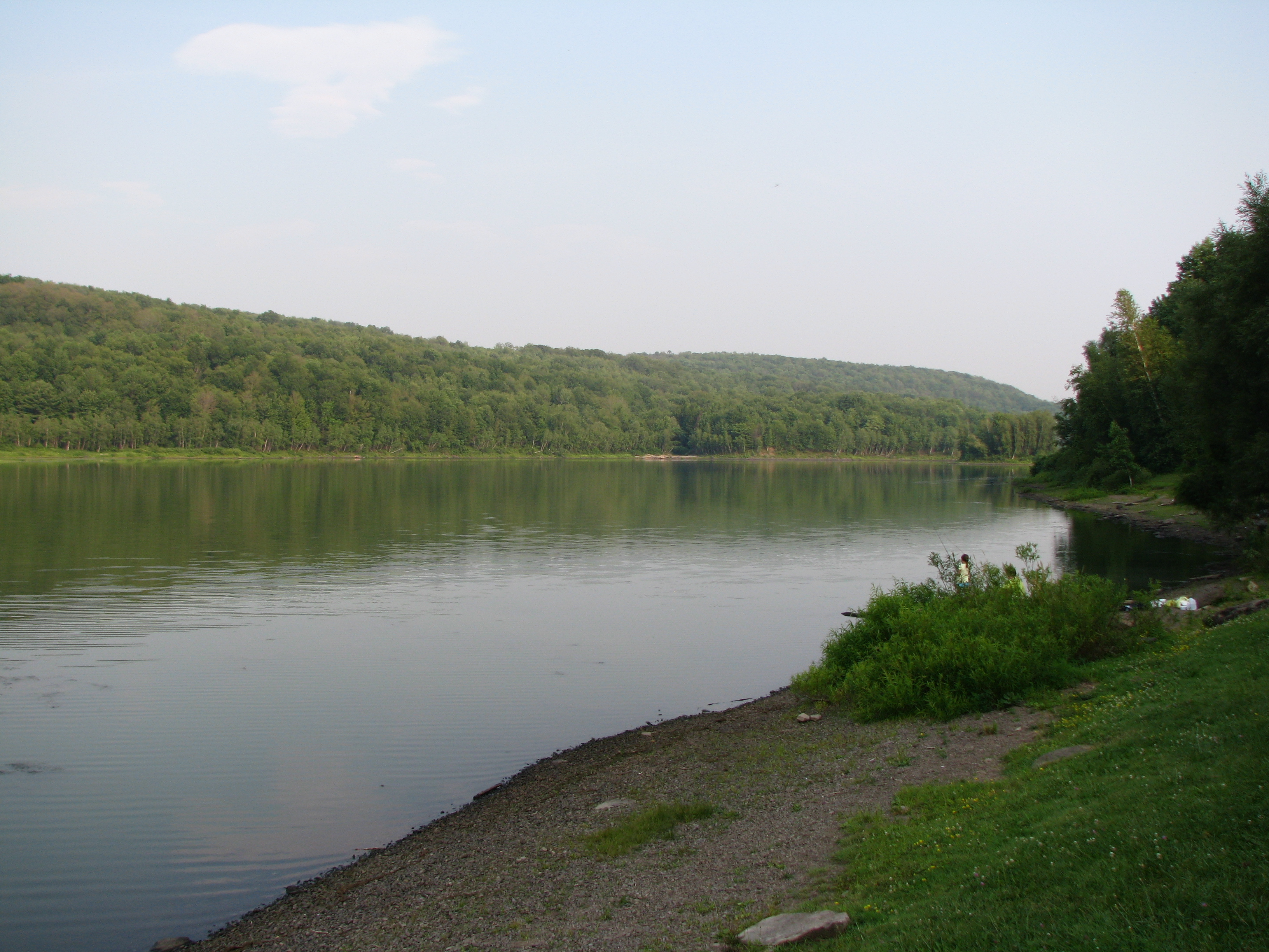 Not yet developed by DCNR